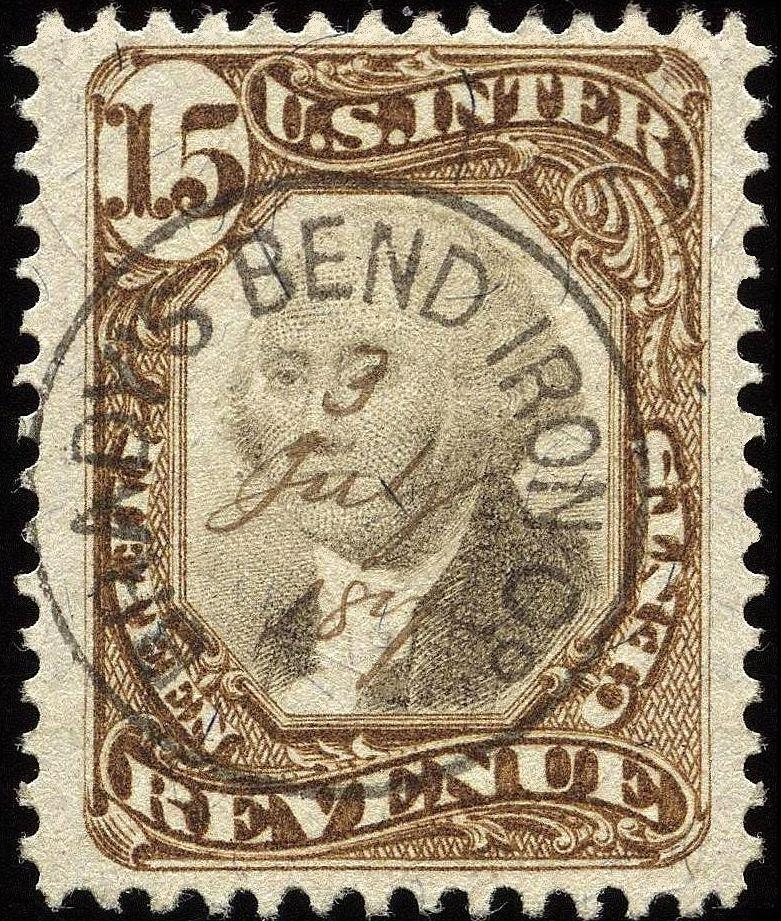 Image of Washington revenue stamp, 3rd issue, 15-cents, issue of 1872 (Scotts# R139)